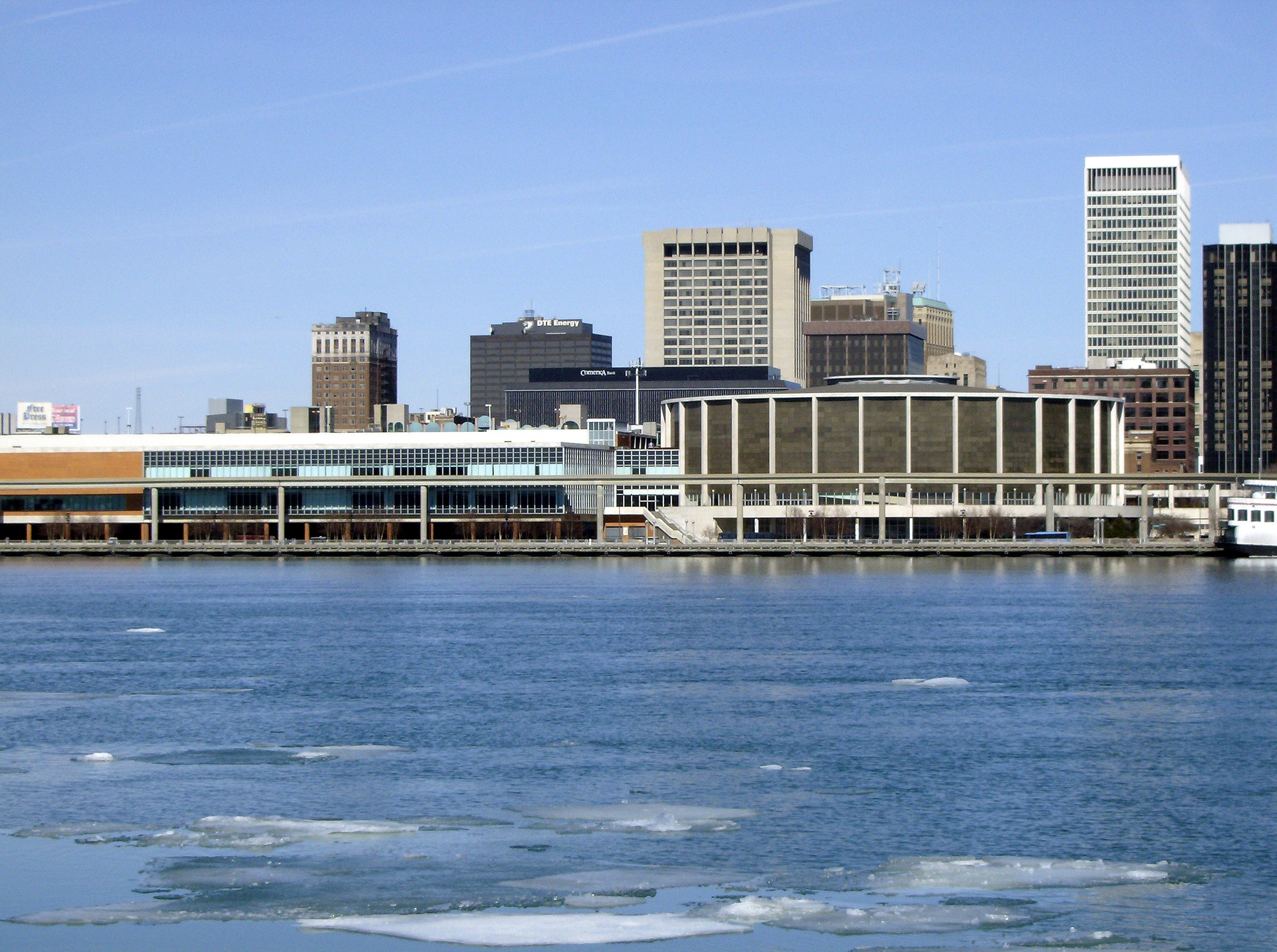 self made